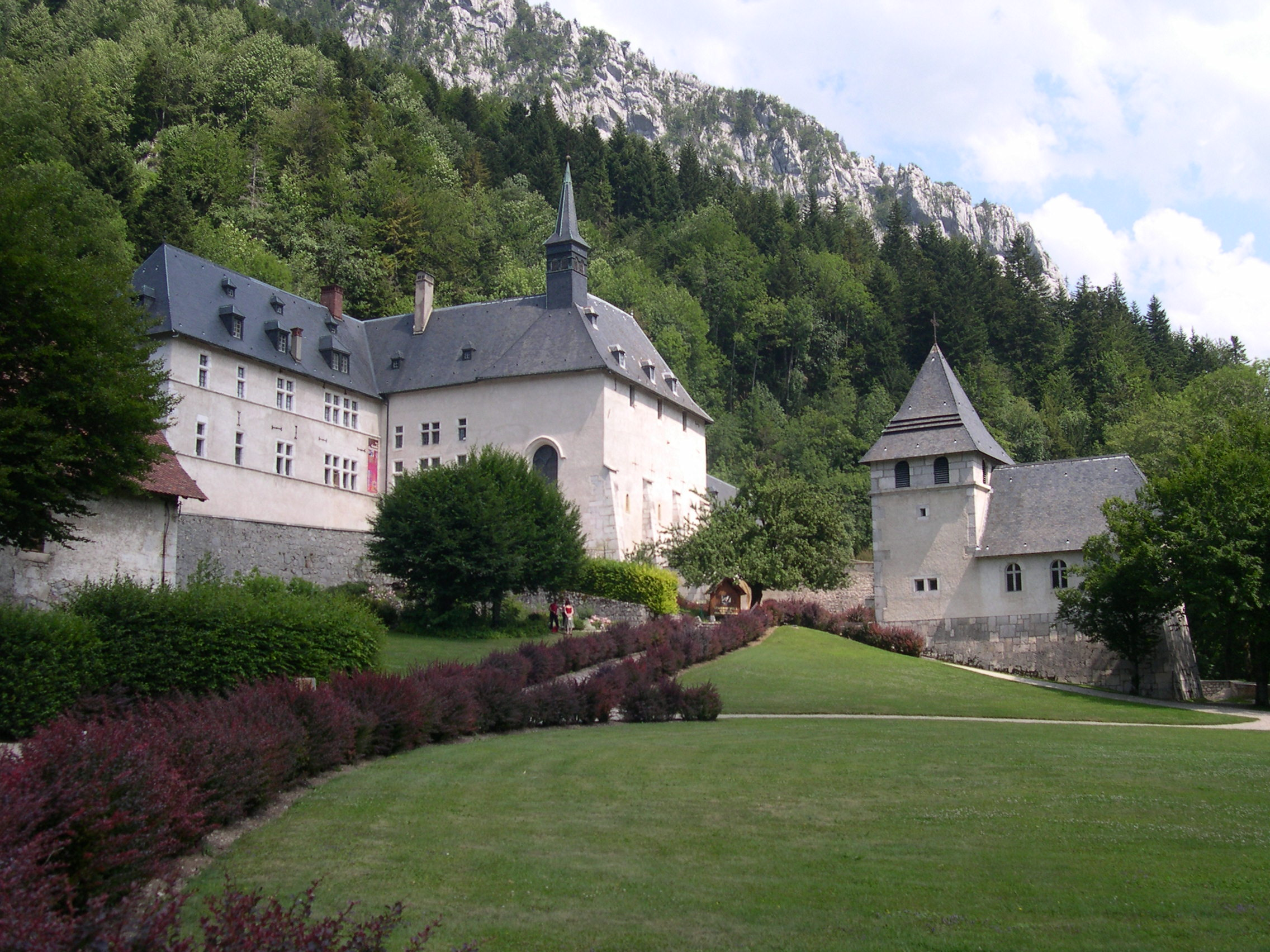 The corrérie of the Grande Chartreuse monastery